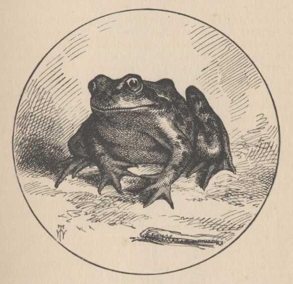 Illustrations de Mark Twains's Sketches, New and Old, 1875.